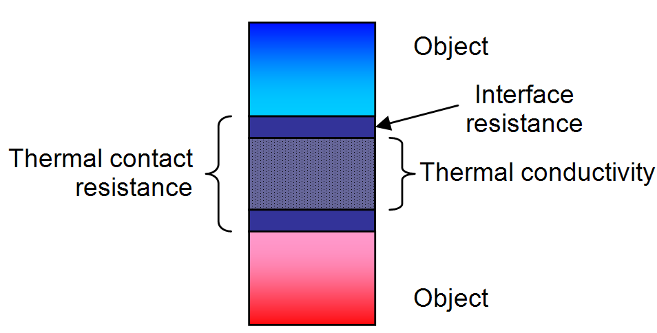 Illustrates the difference between thermal conductivity of thermal interface materials and thermal contact resistance.